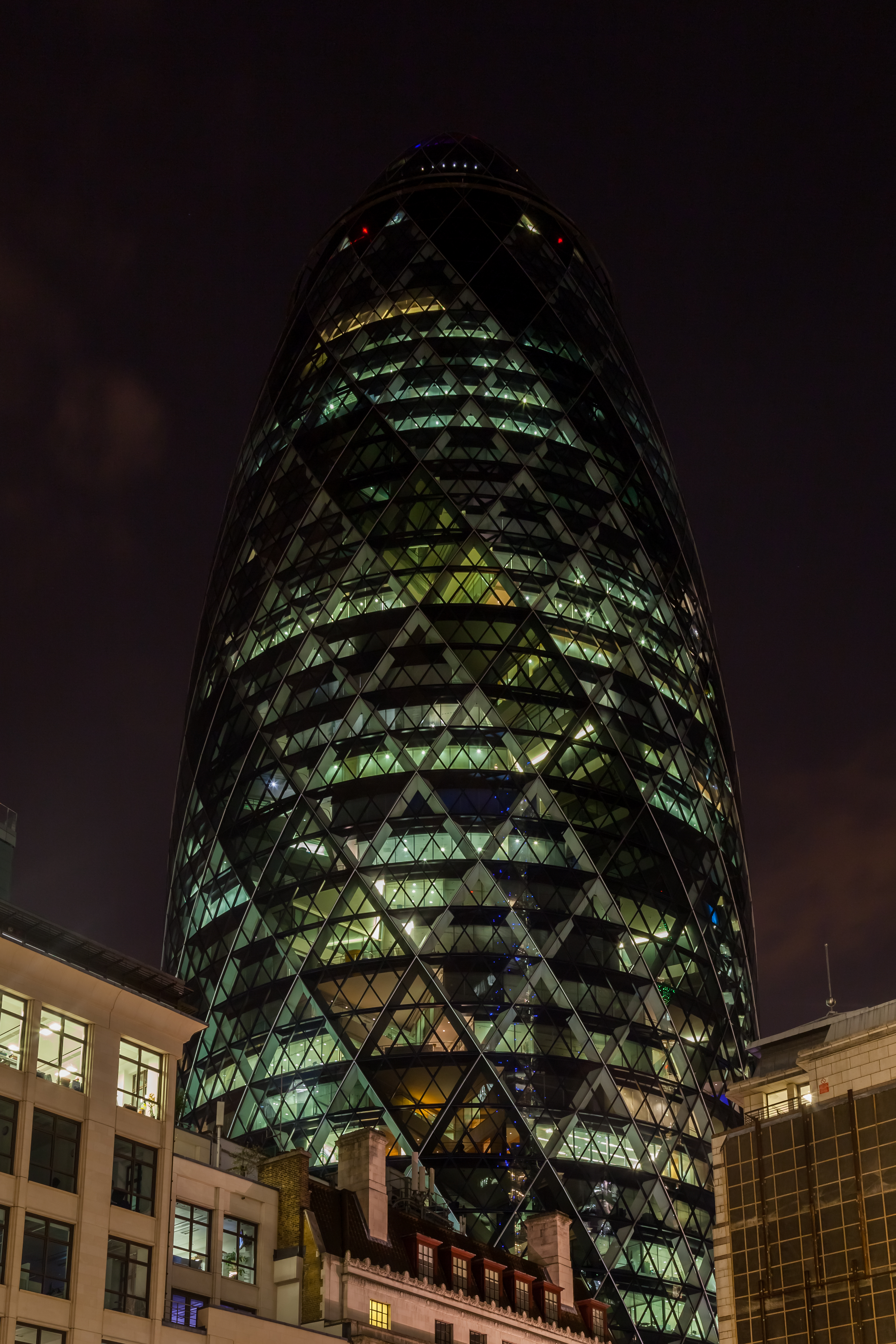 Gherkin, London, England